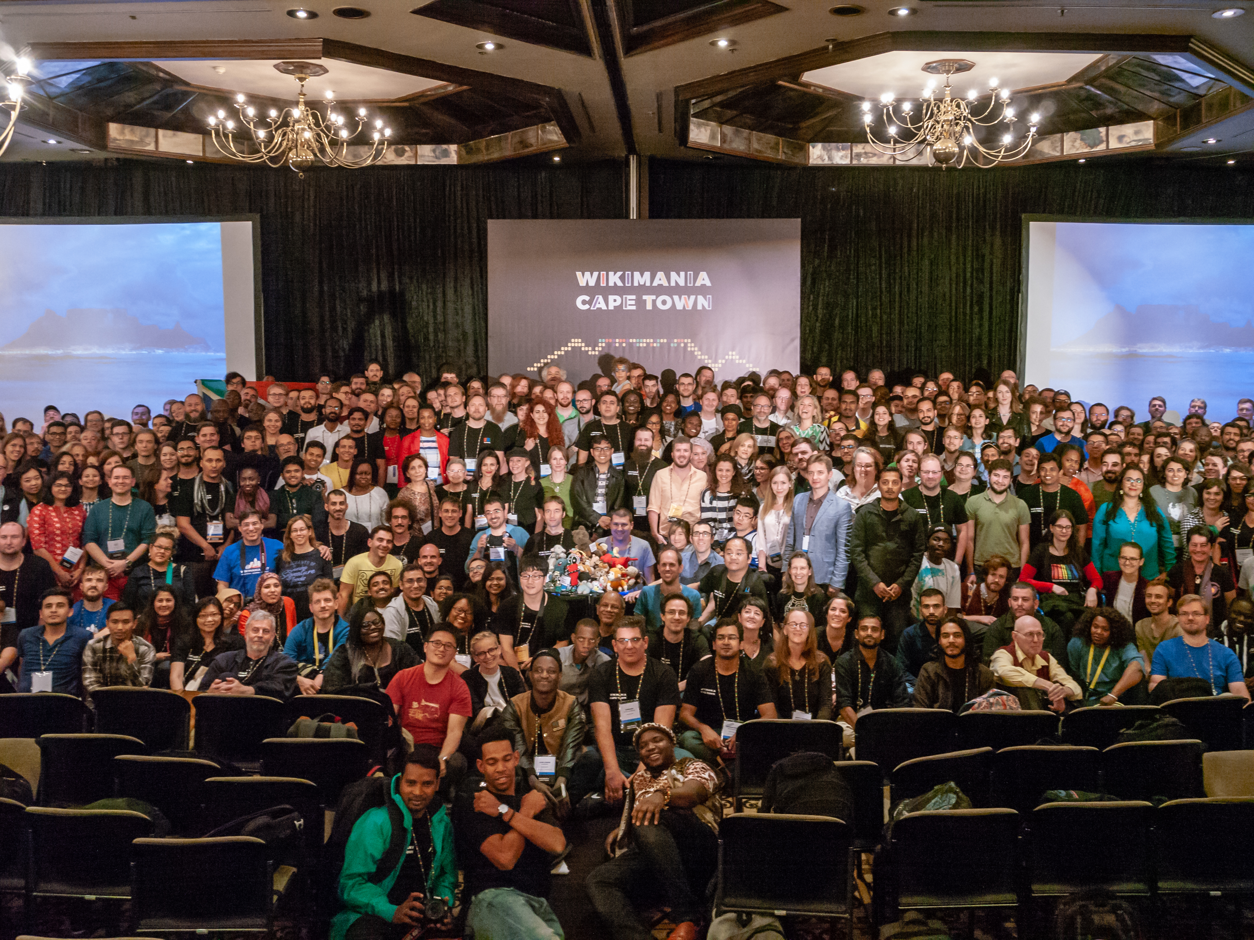 Group photo, Wikimania 2018